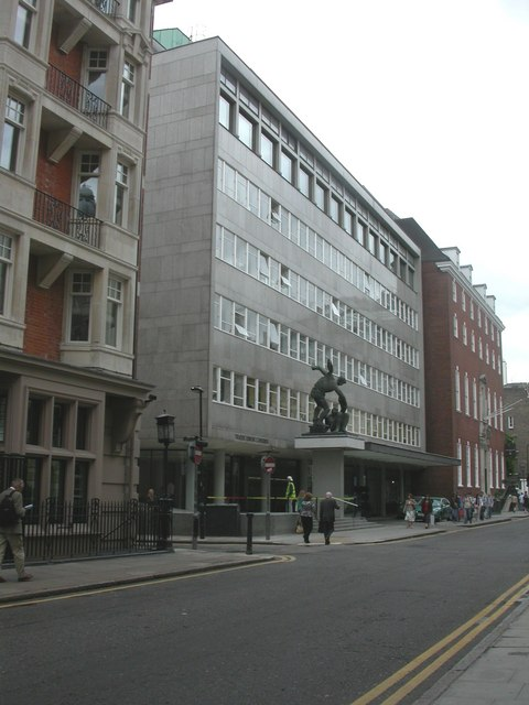 Westminster, Congress House On Great Russell Street, headquarters of the Trades Union Congress.